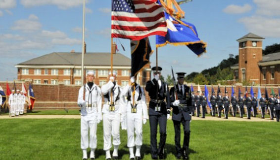 Joint Base Anacostia-Bolling (JBAB) color guard